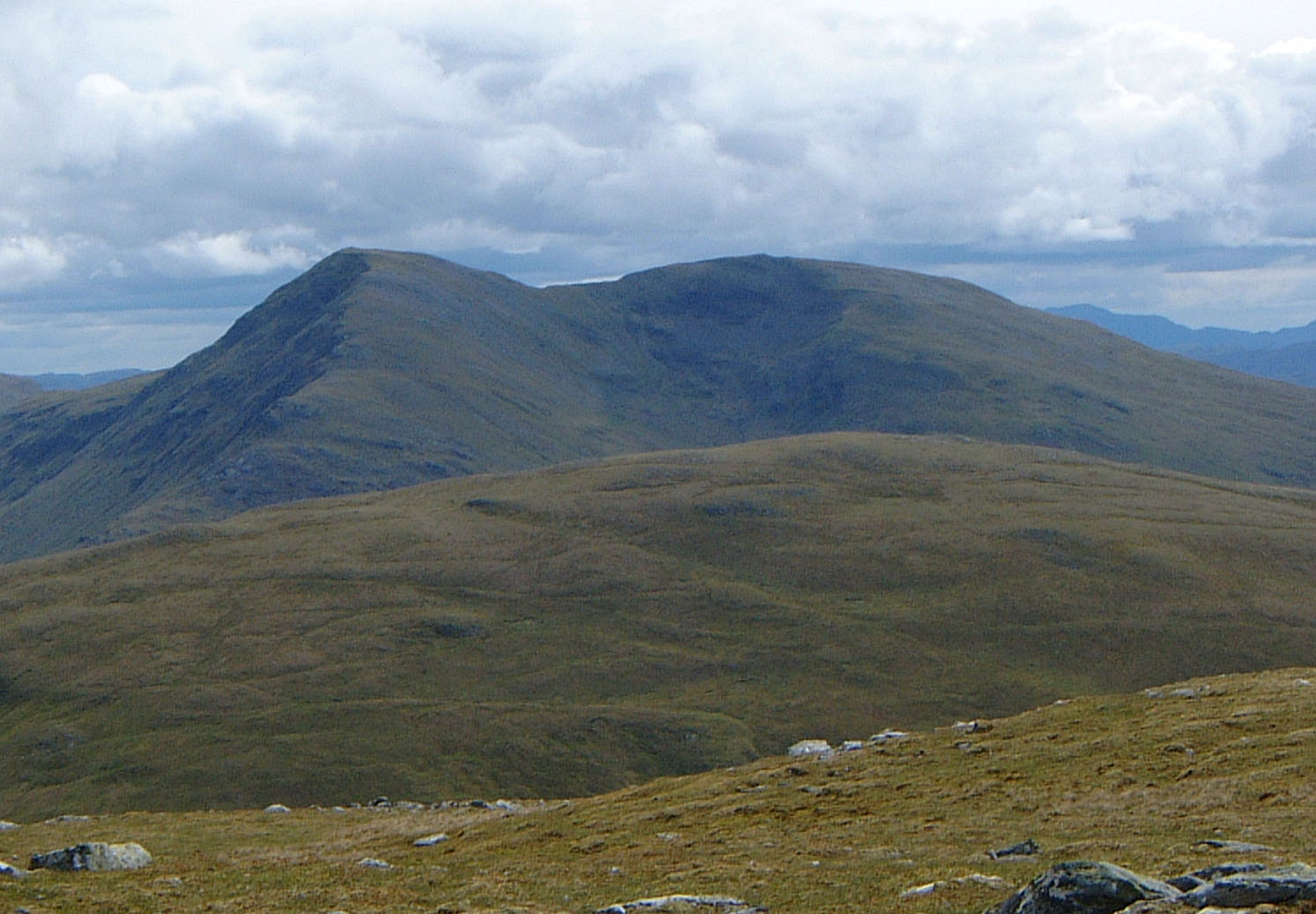 Personal picture taken by Mick Knapton